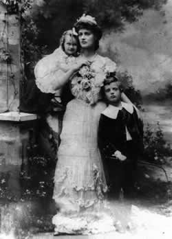 Studio portrait of Countess Markievicz with her stepson Stanislaw and her daughter Maeve (circa 1904).